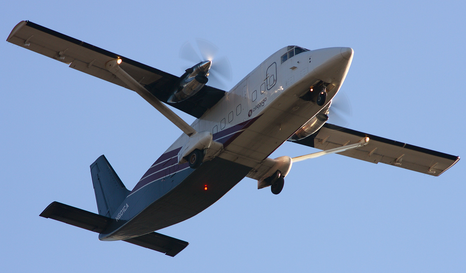 A frequent sight on my photostream. Trying out a 2x TC (Kenko Teleplus 300 Pro DG) on my 200 F2.8L.